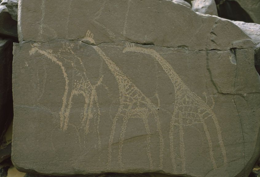 Figures of giraffes.